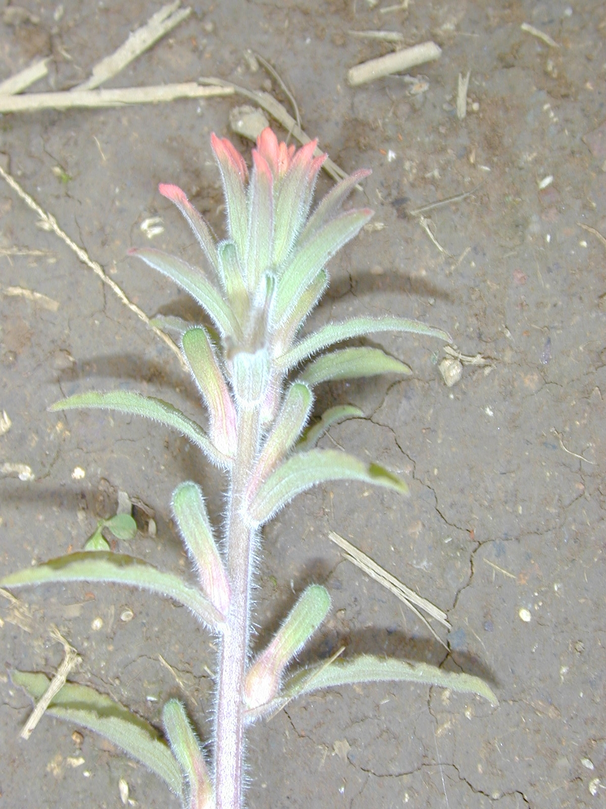 Castilleja arvensis (flower). Location: Maui, Waihee Ridge Trail